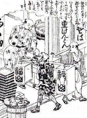 Fukuyama soba restaurant in Fukiya-chō, Edo, from Ehon Sakaegusa by Shigemasa Kitao